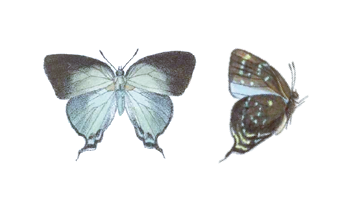 Thecla augustula = Theritas theocritus (Fabricius, 1793, male upperside (left) and underwing